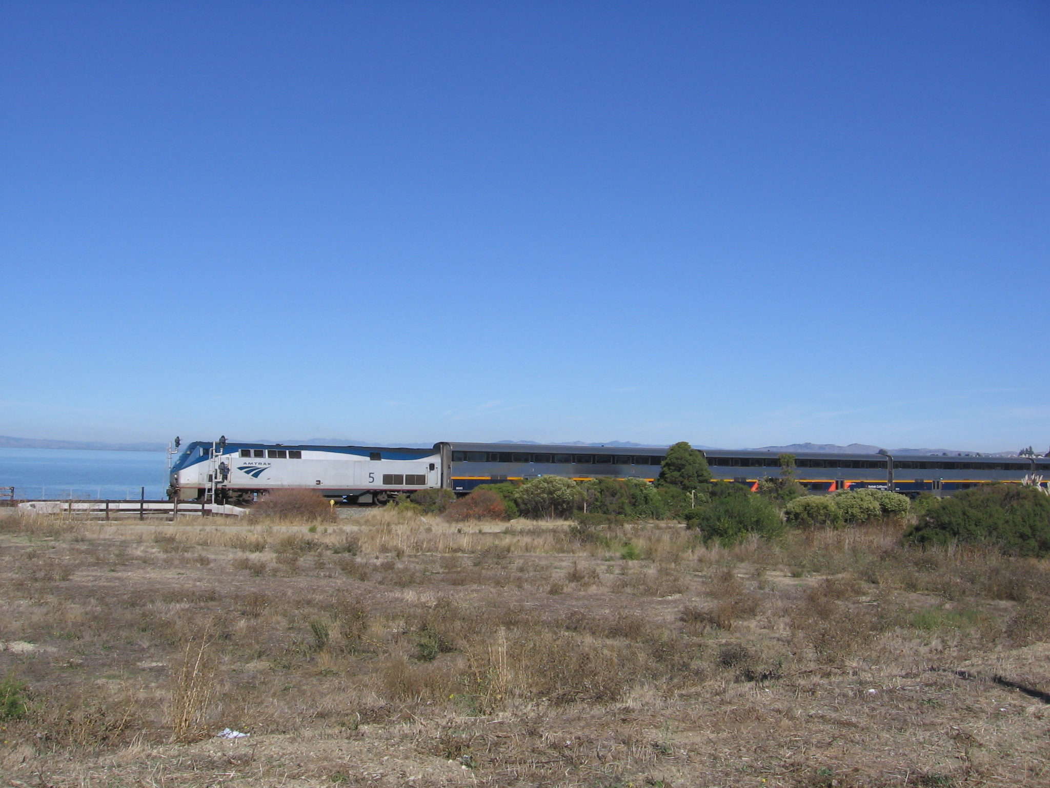 A Capitol Corridor train rushes past the site of the proposed Hercules Station & Terminal in Hercules, California, USA.